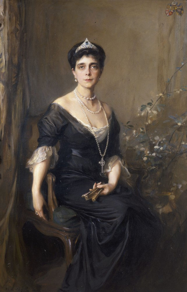 Princess Nicholas of Greece and Denmark, née Grand Duchess Elena Vladimirovna of Russia